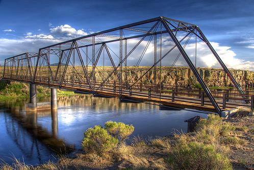 Bridgepixing the historic Costilla Crossing Bridge spanning the Rio Grande near Antonito, Colorado south of Alamosa. This unique Thacher Truss design bridge was completed in 1892 and is on the National Register of Historic Places. Antonito is also the Colorado home of the Cumbres & Toltec Scenic Railroad. Additional Bridge Photos and a Bridge Blog at